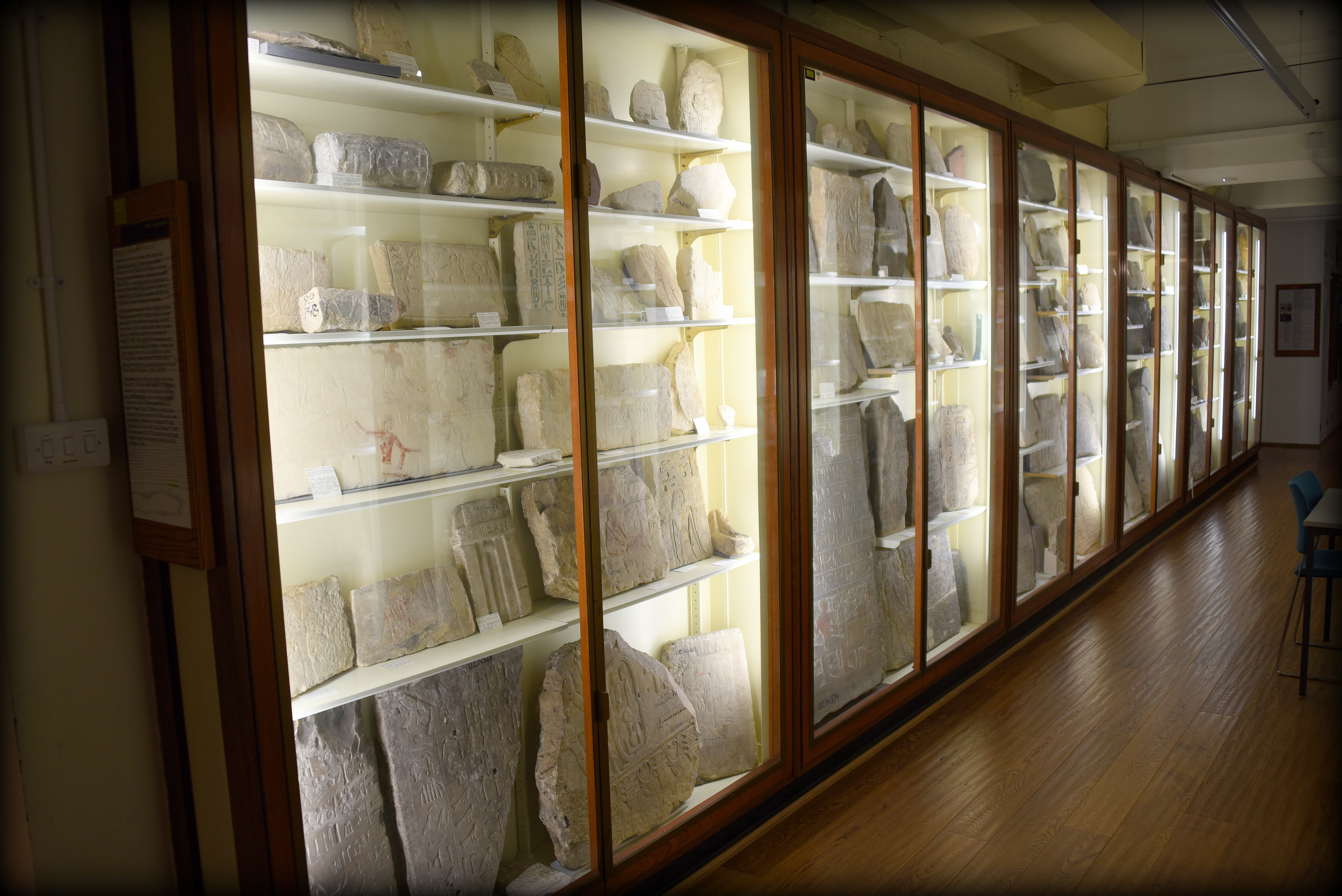 On either side of this small and narrow hall, there are displaying cases, containing fragments and slabs of stelae. This is seen immediately after you pass through the information desk. (with thanks to The Petrie Museum of Egyptian Archaeology, UCL).